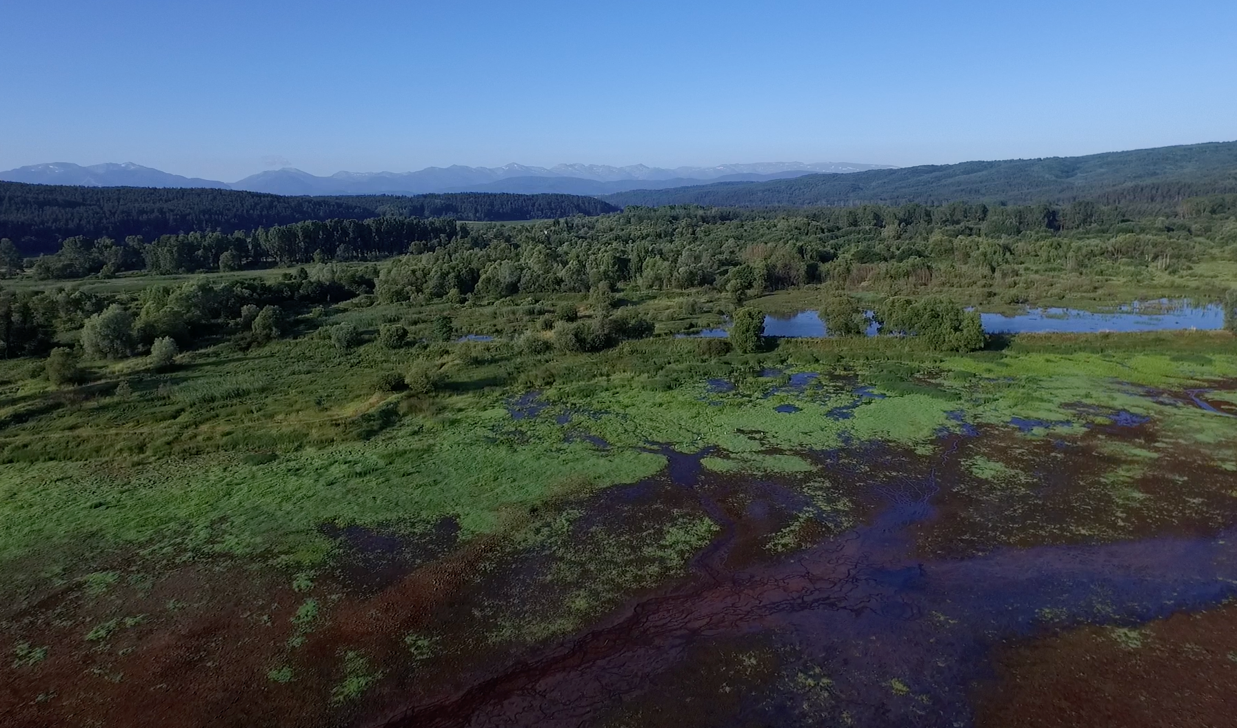 Местност "Шаварите"